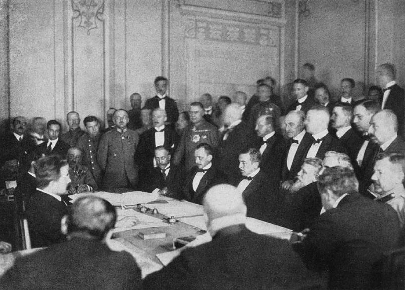 Brest-Litovsk negotiations: in the center, from left to right: Austrohungarian Foreign Minister Count Ottokar Von Czernin, German Foreign Minister Richard von Kühlmann and Bulgarian Premier Vasil Radoslavov.